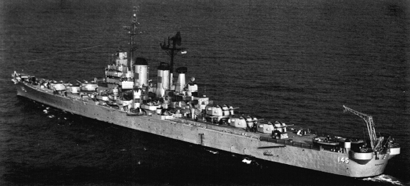 The U.S. Navy light cruiser USS Roanoke (CL-145) as built, circa in 1949.